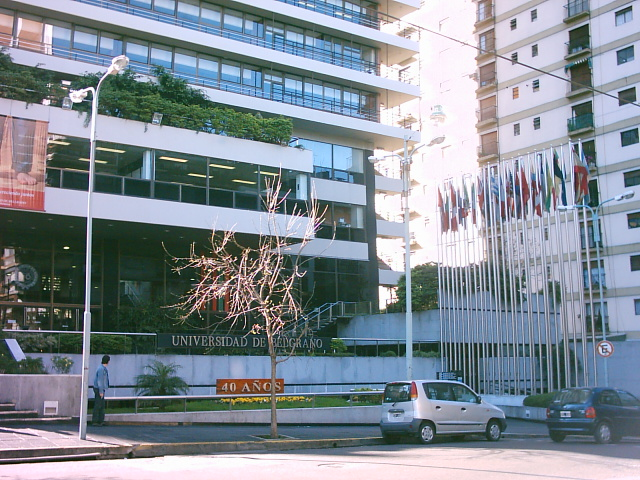 Main building of the University of Belgrano, Buenos Aires. Designed by Mario Álvarez and completed in 1992.